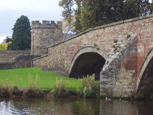 Nungate Bridge and Doo'cot, Haddington. Nungate Bridge is one of the oldest structures in Haddington and at one time was the main thoroughfare.